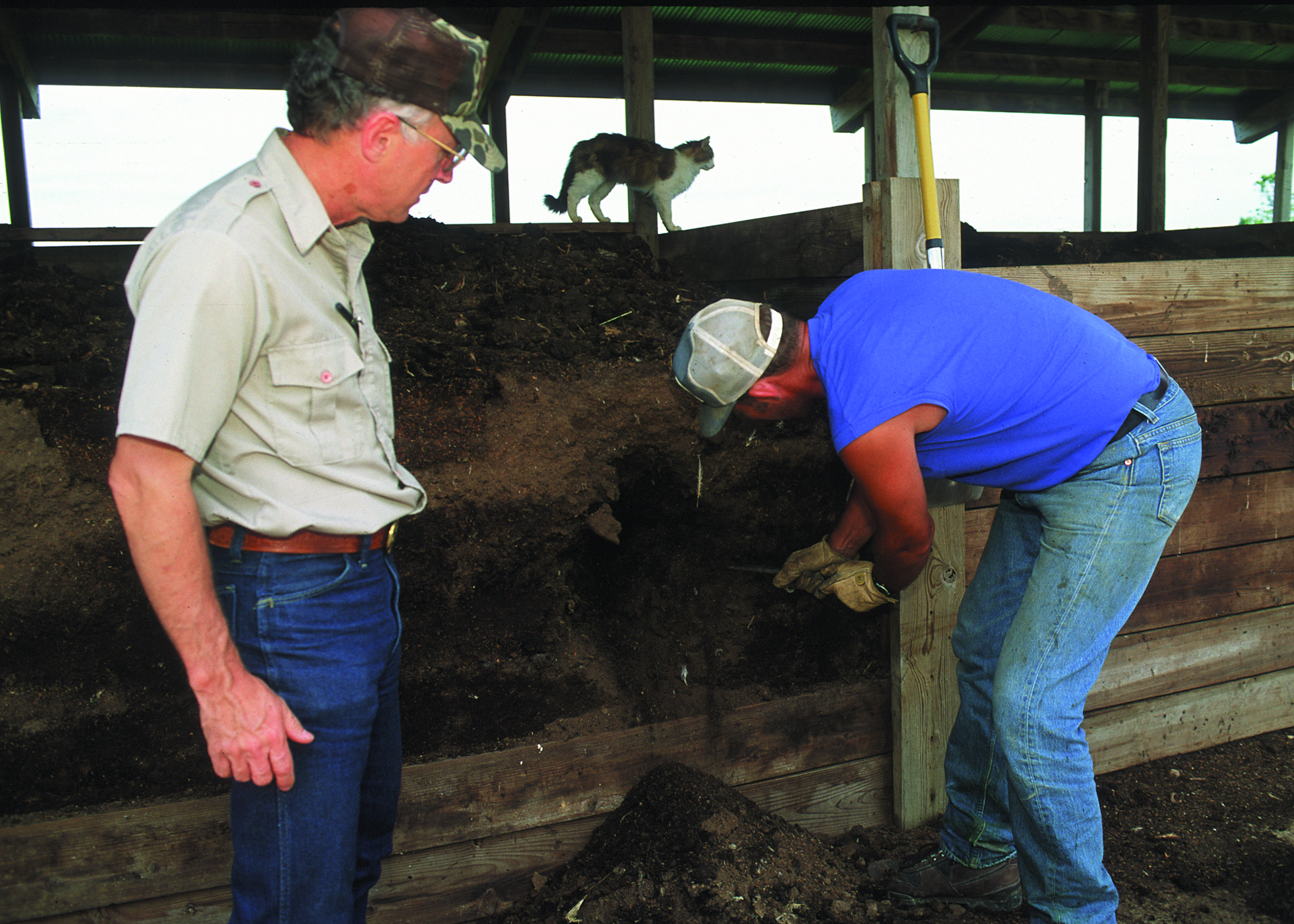 Missouri poultry producers and their feline friend check the contents of a poultry litter composter, which protects the environment and supplies nutrients for grassland.